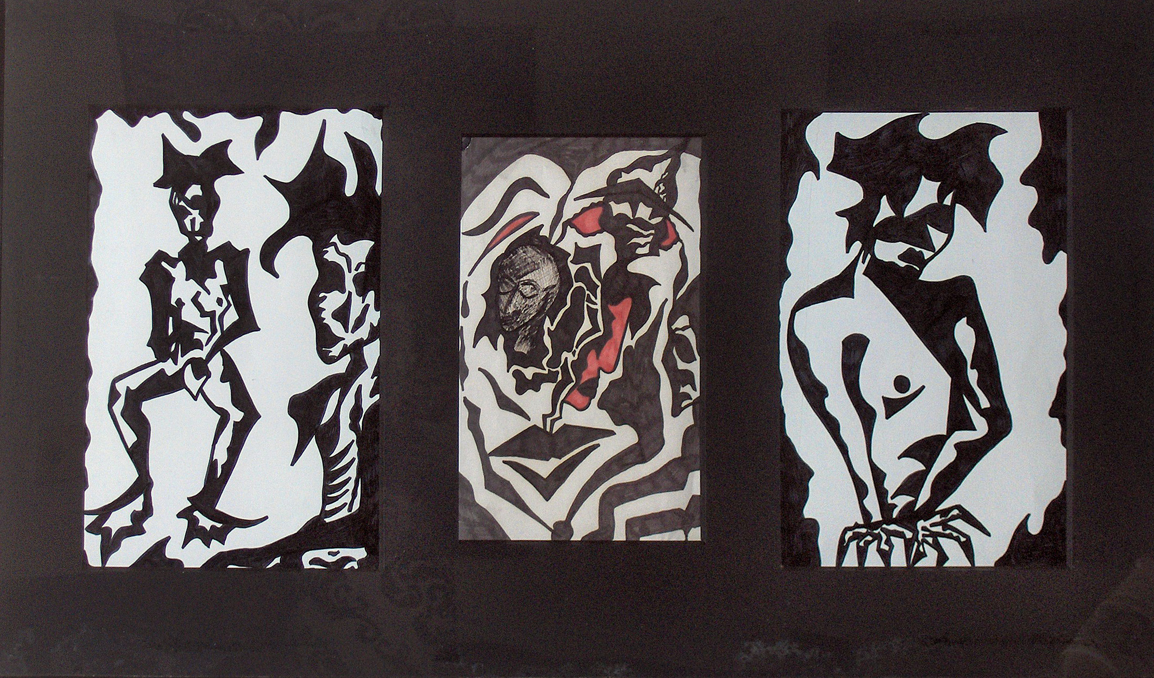 "Gothic Play" (1986), painting by Natasja Delanghe